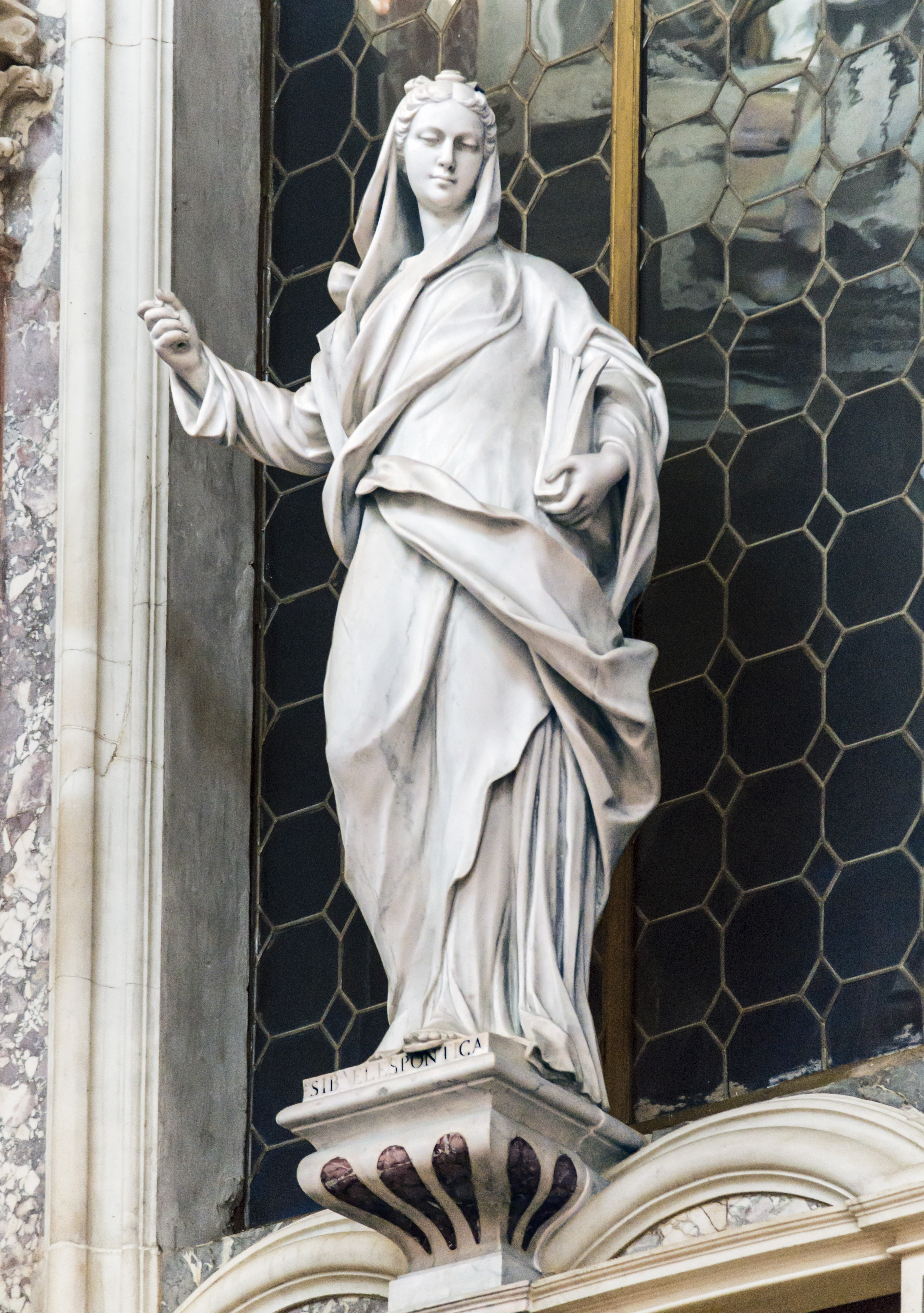 Church Santa Maria degli Scalzi Venice. Sibyl of the Hellespont, by Paolo et Giuseppe Groppelli.